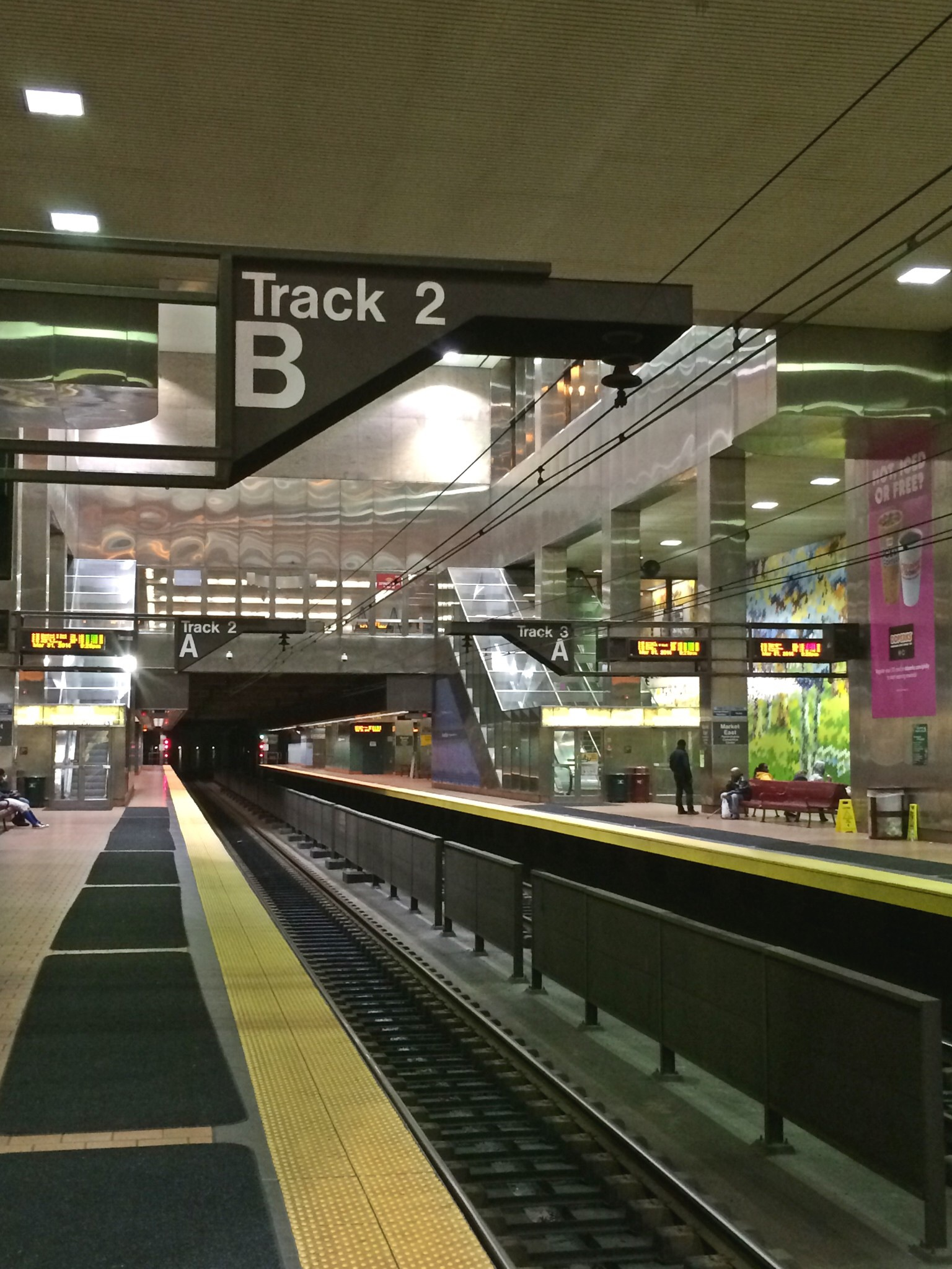 SEPTA Market East Station